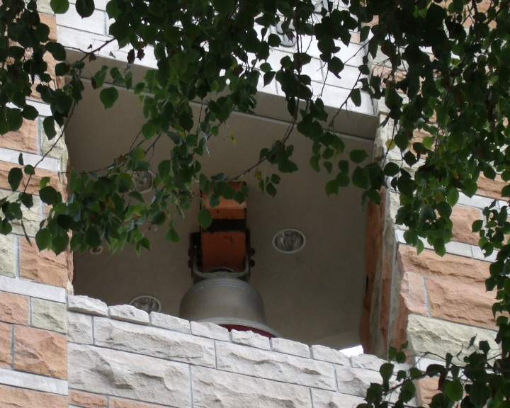 The salvaged Bell of the USS Arizona. The 1,820-pound bell is one of two salvaged from the USS Arizona and is housed in the “bell tower” of the University of Arizona Student Union Memorial Center. The University of Arizona Student Union Memorial Center is located at 1303 E University Blvd in Tucson.